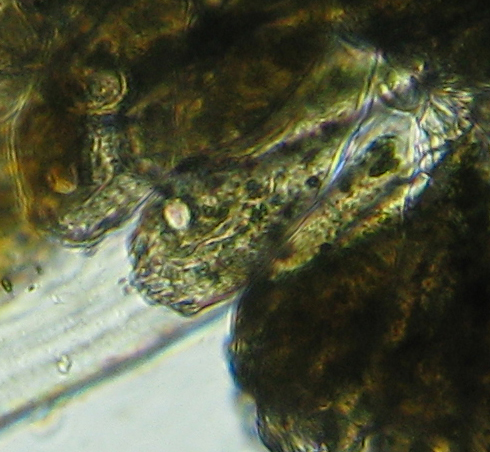 Opercularia ampluscolonia zooid